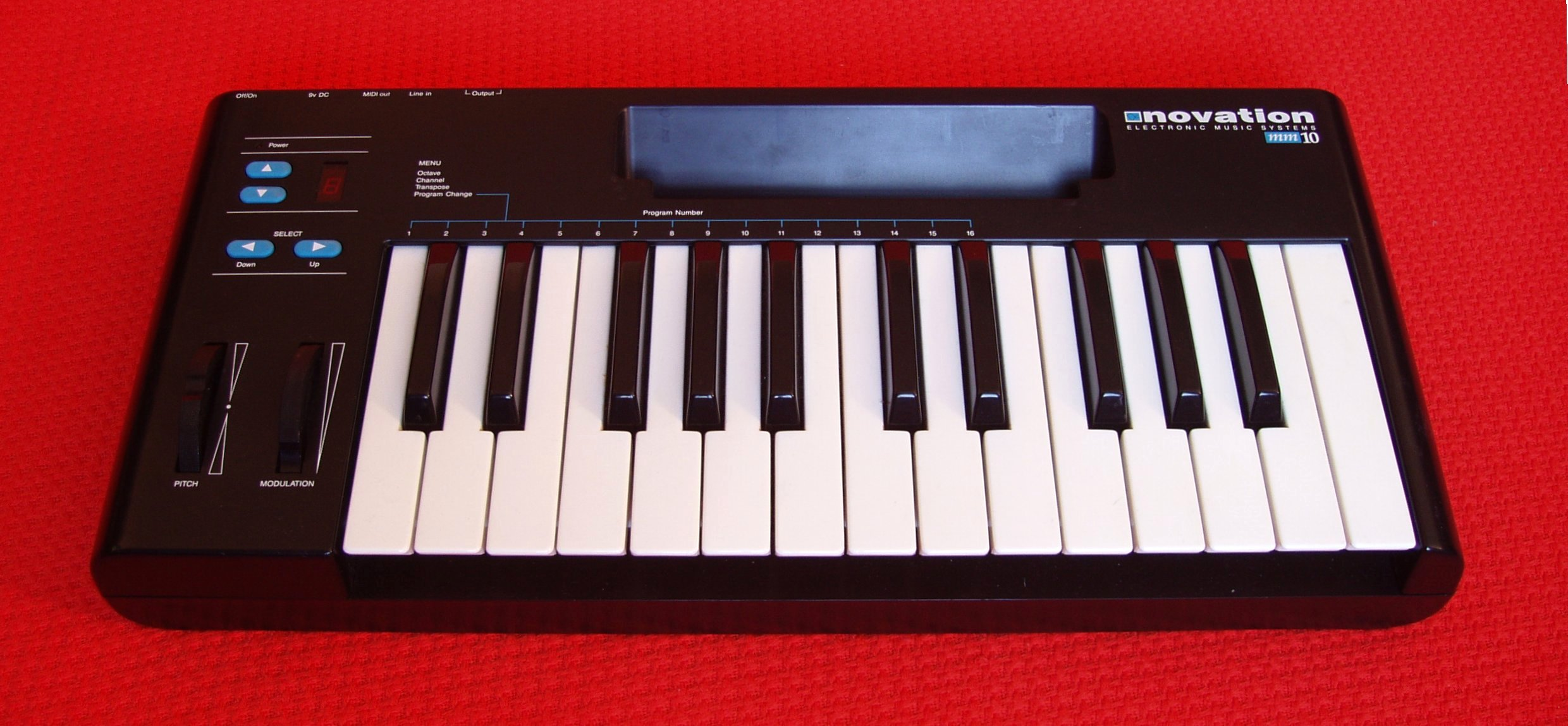 The Novation MM10 Controller keyboard (companion for the Yamaha QY10).